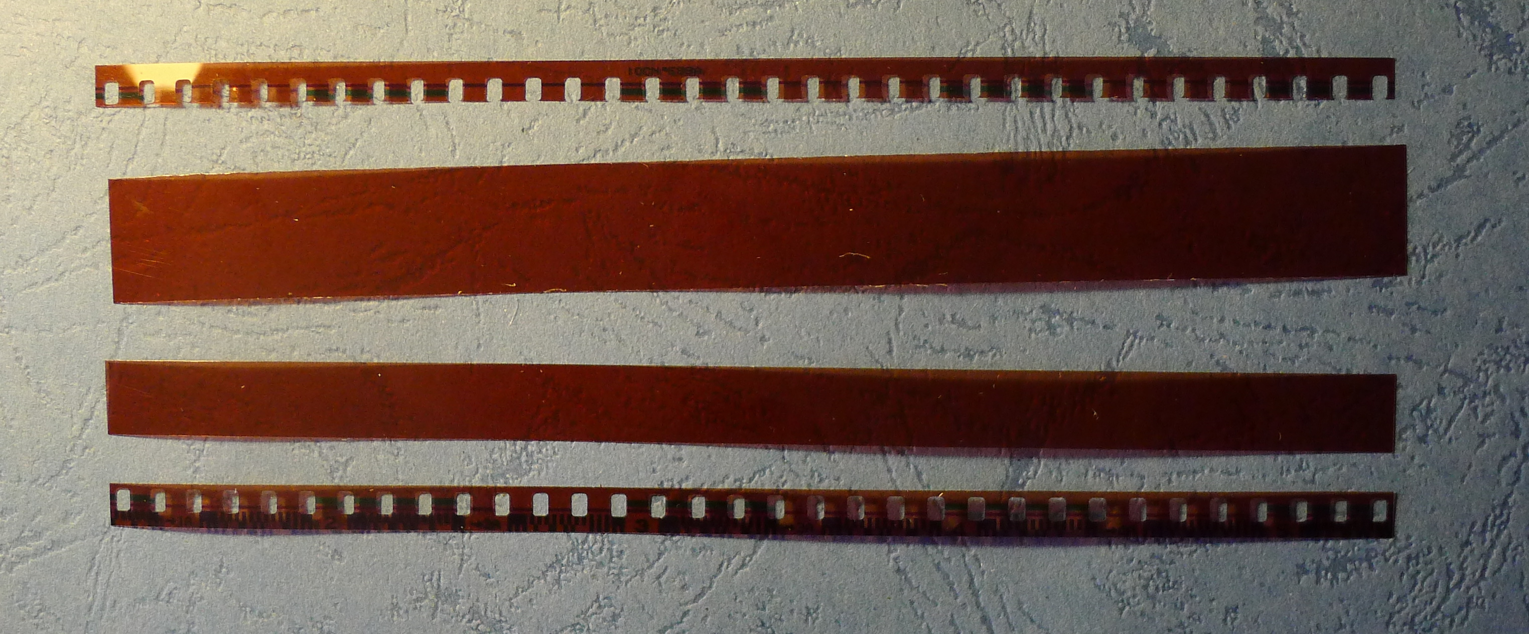 16mm and 9.2mm film strips cut with film slitter